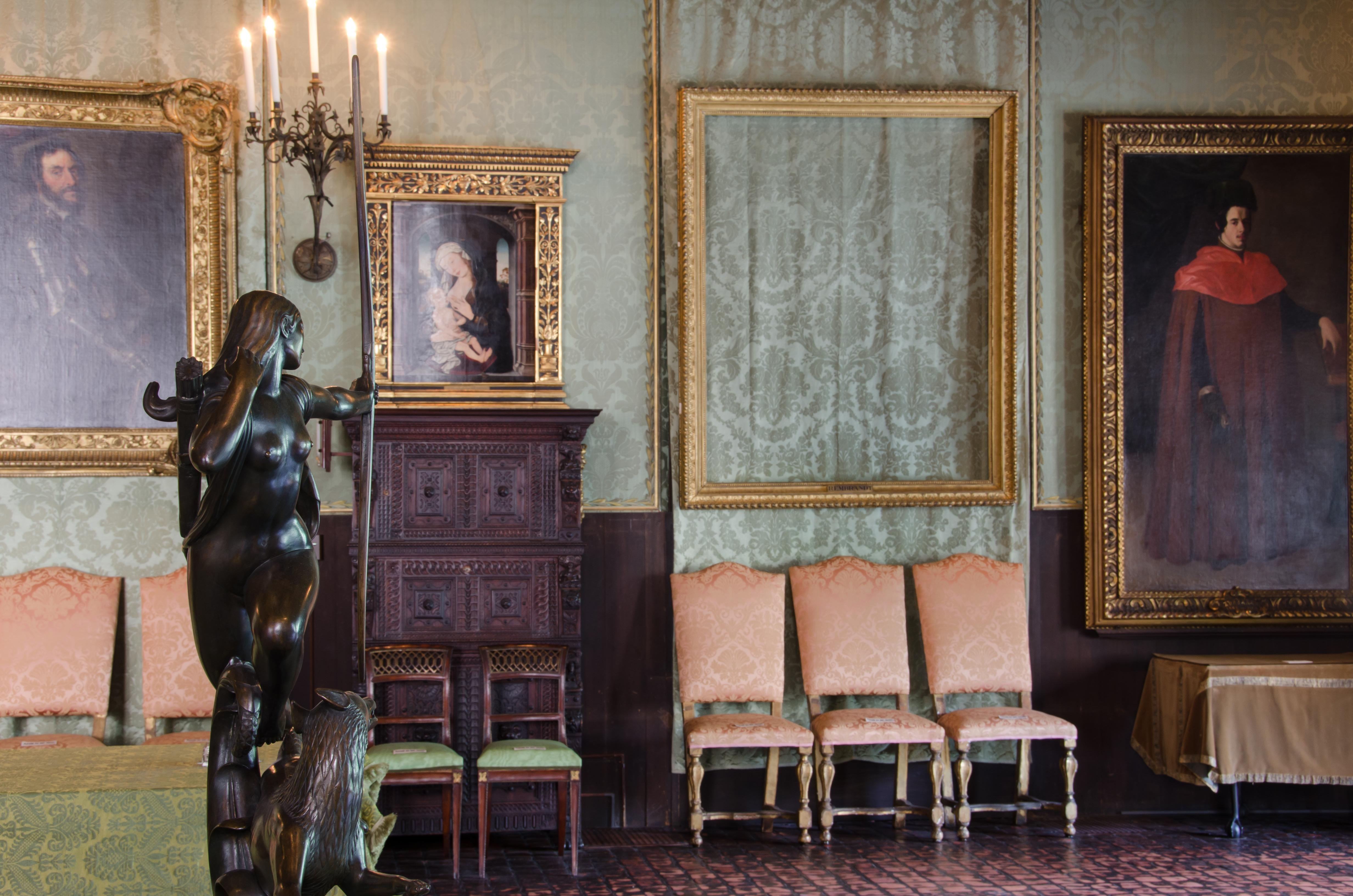 An empty frame remains where The Storm on the Sea of Galilee was once displayed. Picture provided by the FBI showing the empty frames for missing paintings after the theft at the Isabella Stewart Gardner Museum